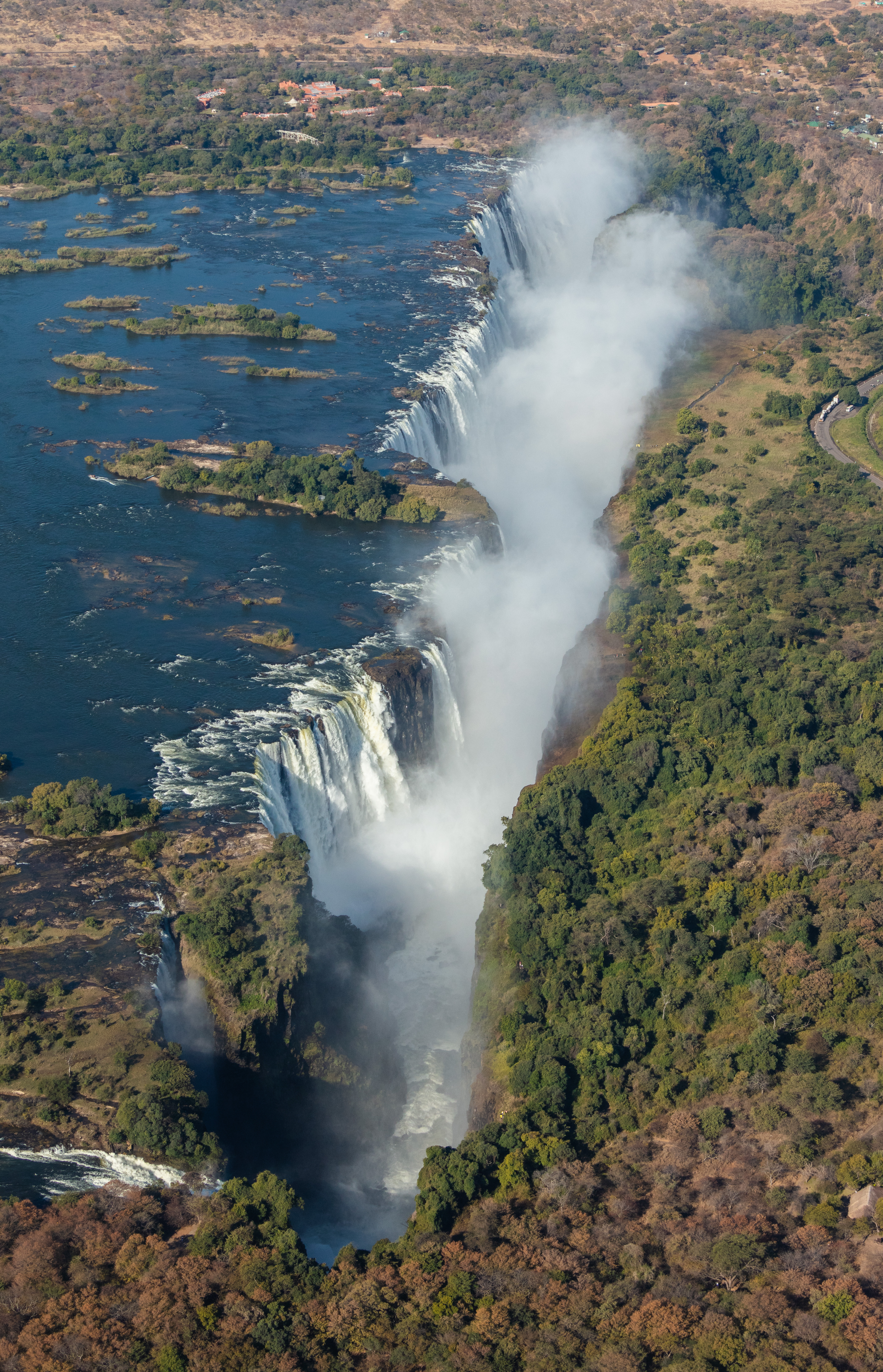 Aerial view of the Victoria Falls of the Zambezi River, border between Zambia (left side) and Zimbabwe (right side). The Victoria Falls is the largest sheet of falling water in the world based on its combined width of 1,708 metres (5,604 ft) and height of 108 metres (354 ft).